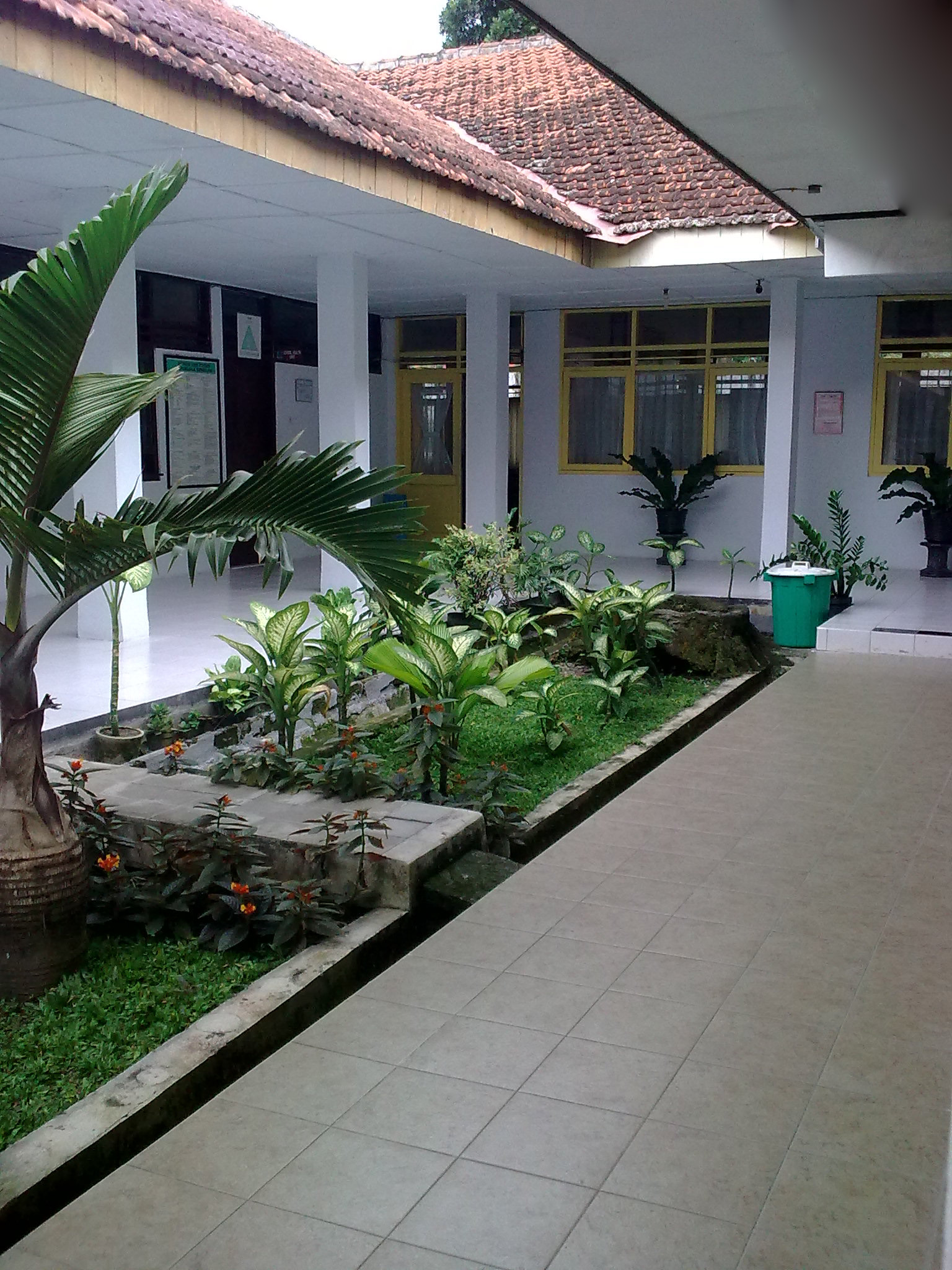 Ruang UKS, Ruang Guru, Ruang Kepala Sekolah (dari Kiri ke Kanan)